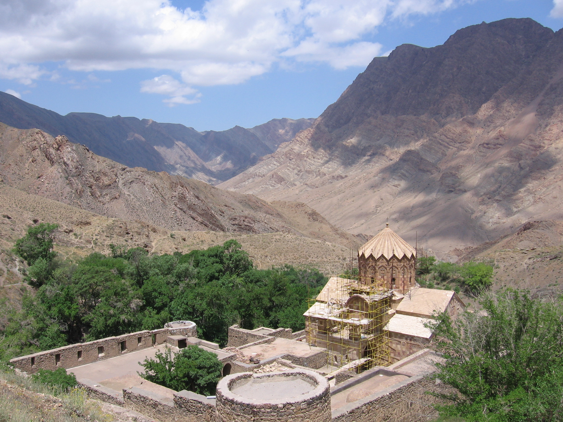 Saint Stepanous Cathedral, Jolfa, Iran